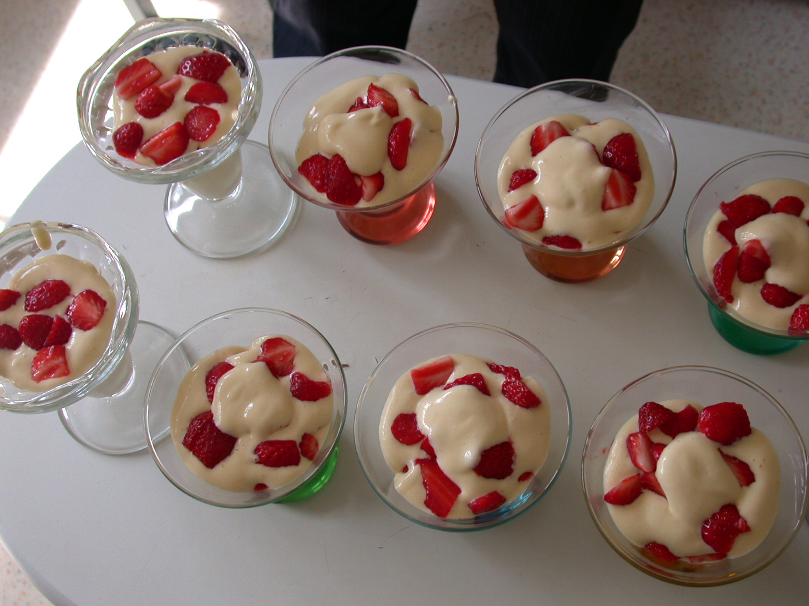 Strawberries tiramisu